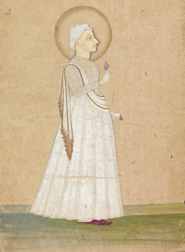 Portrait of Peshwa Madhavrao Balajirao (Thorla Madhavrao or Madhavrao 1st) by the artist Bhoj Raj